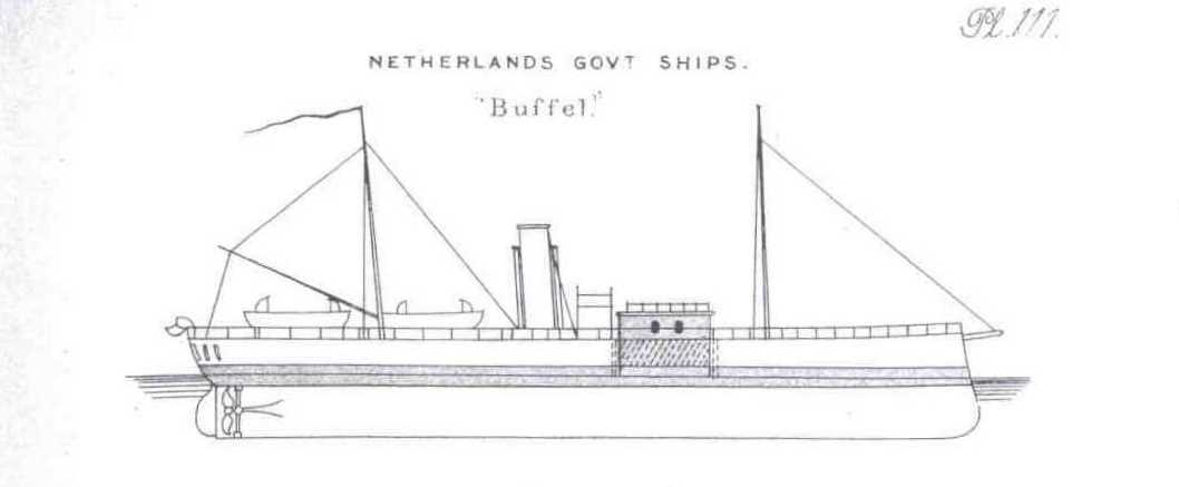 This illustration from Brassey's Naval Annual 1888 shows the Dutch Coastal Defence ship Buffel